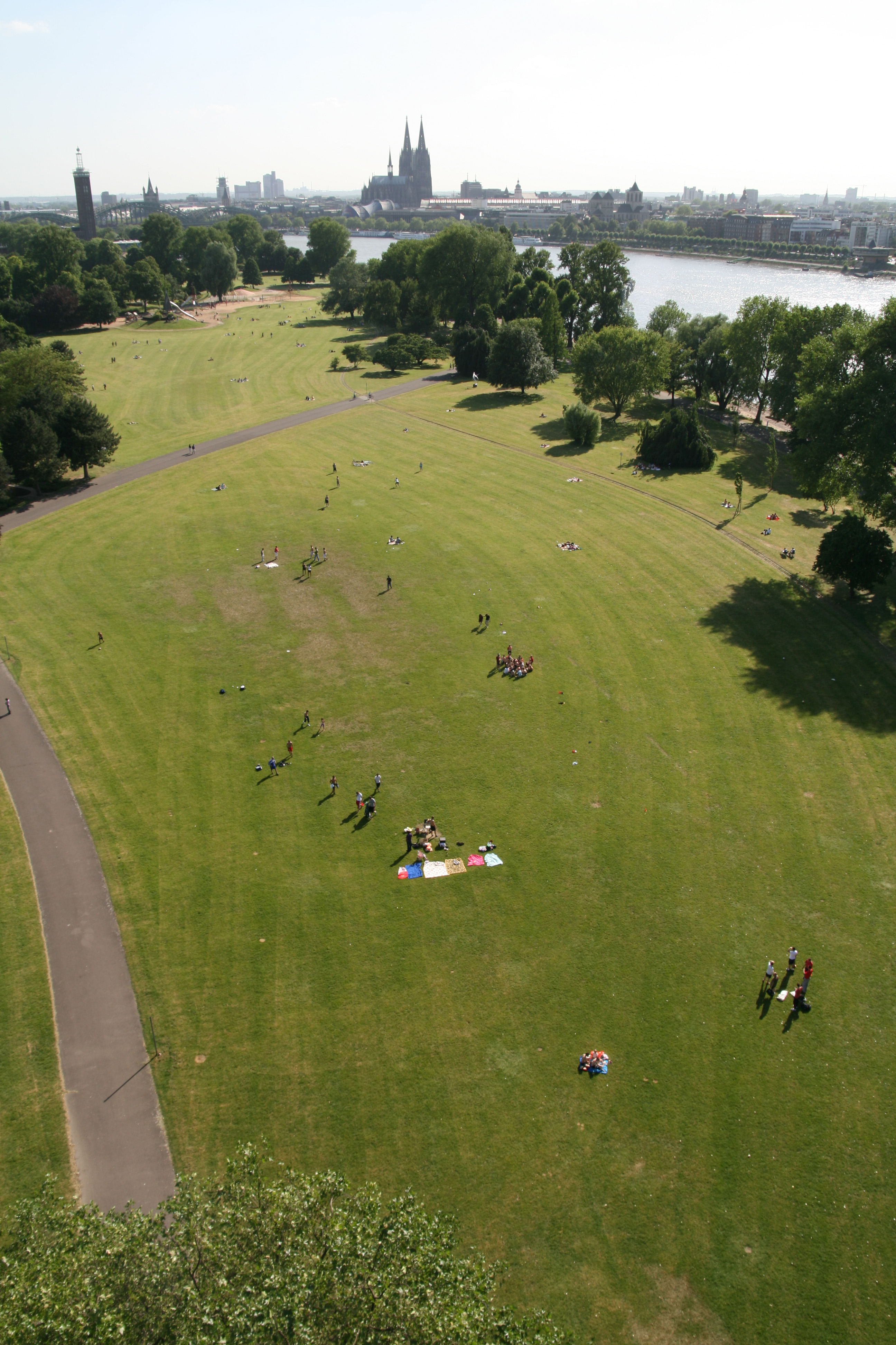 Cologne Rheinpark, view to SW out of the cablecar